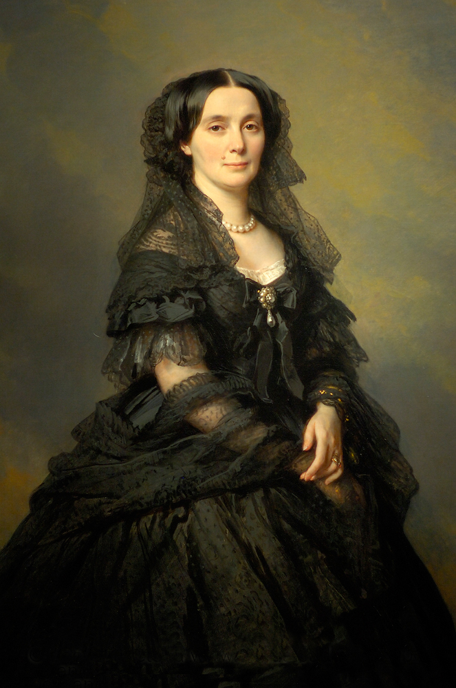 Princess Kotschoubey